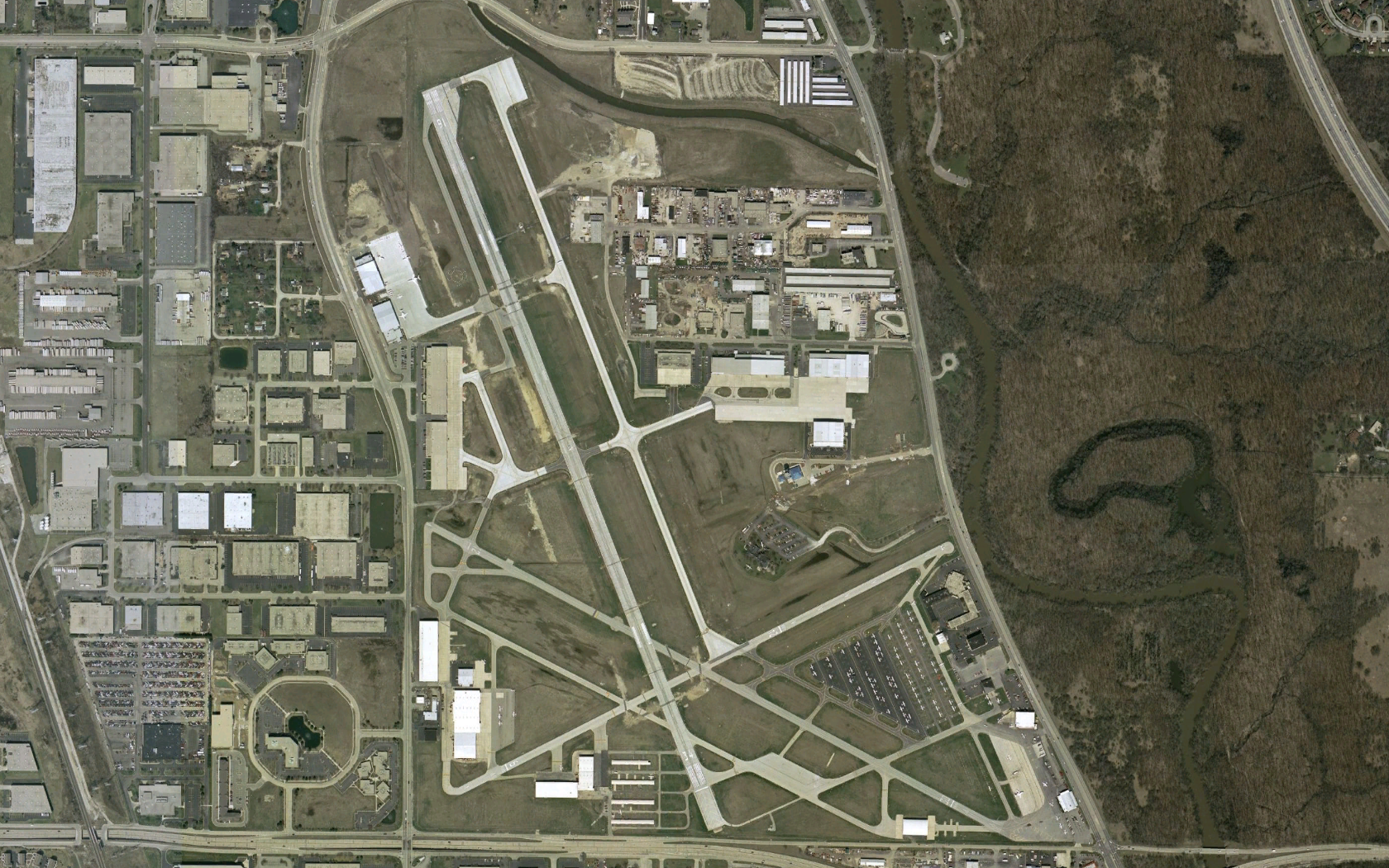 USGS image of Chicago Executive Airport (formerly Palwaukee Municipal Airport) in Illinois, United States.